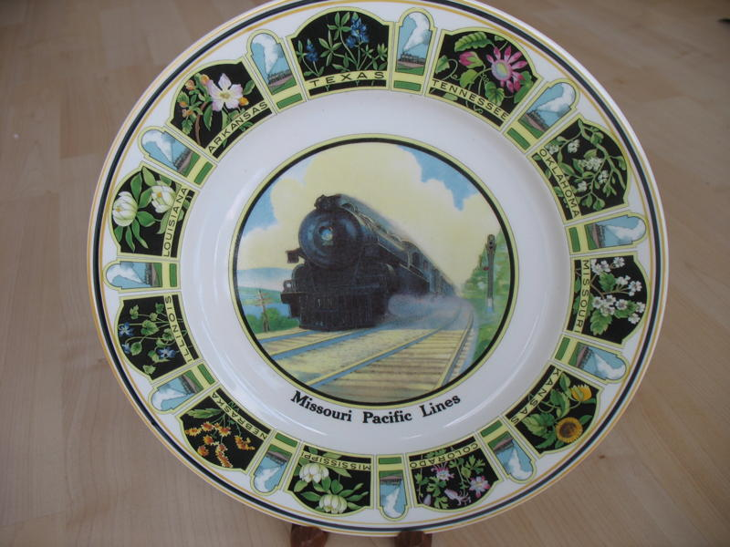 According to the John W. Barriger III National Railroad Library, the plate is a Missouri Pacific Lines Dining Car Service Plate. It was issued to commemorate the 13th anniversary of the newly-equipped "Sunshine Special". Artwork by William Harnden Foster. Syracuse China Co., 1927.